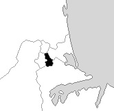 Christchurch East electorate 1938-46